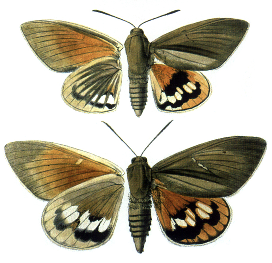 Paysandisia archon (Lepidoptera: Castniidae) (figured as Castnia josepha Oberthür, 1914)